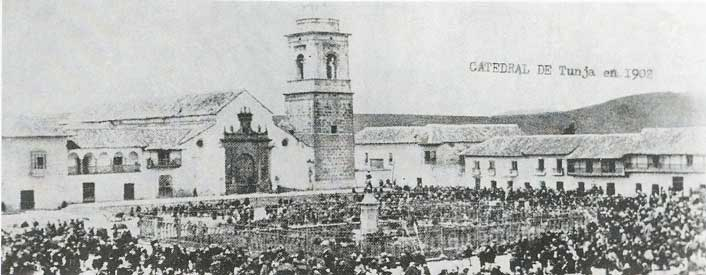 Cathedral of Tunja 1902